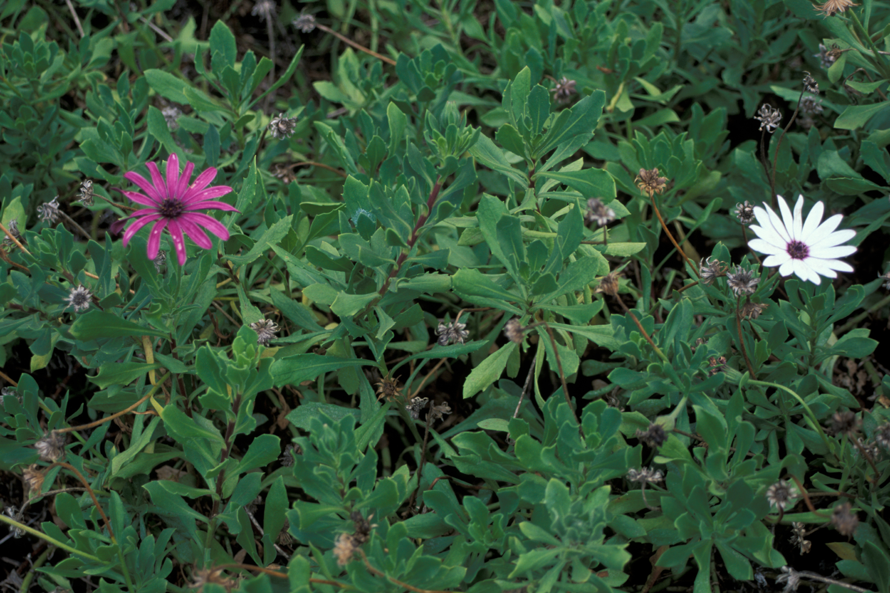 Osteospermum fruticosum (flowers). Location: Maui, Kula Experiment Station